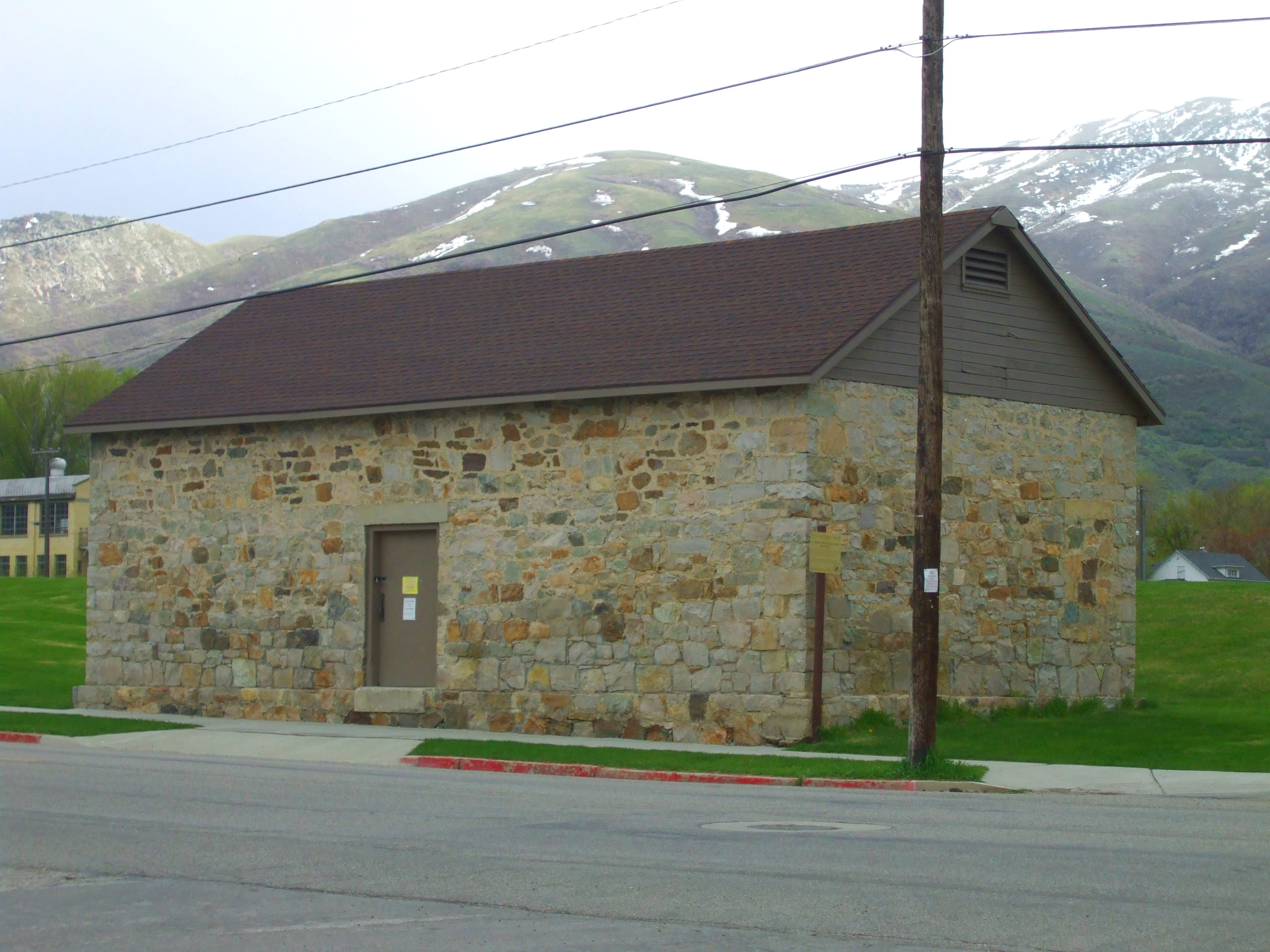 The Granary of the Relief Society, a historic building in Brigham City, Utah, United States.